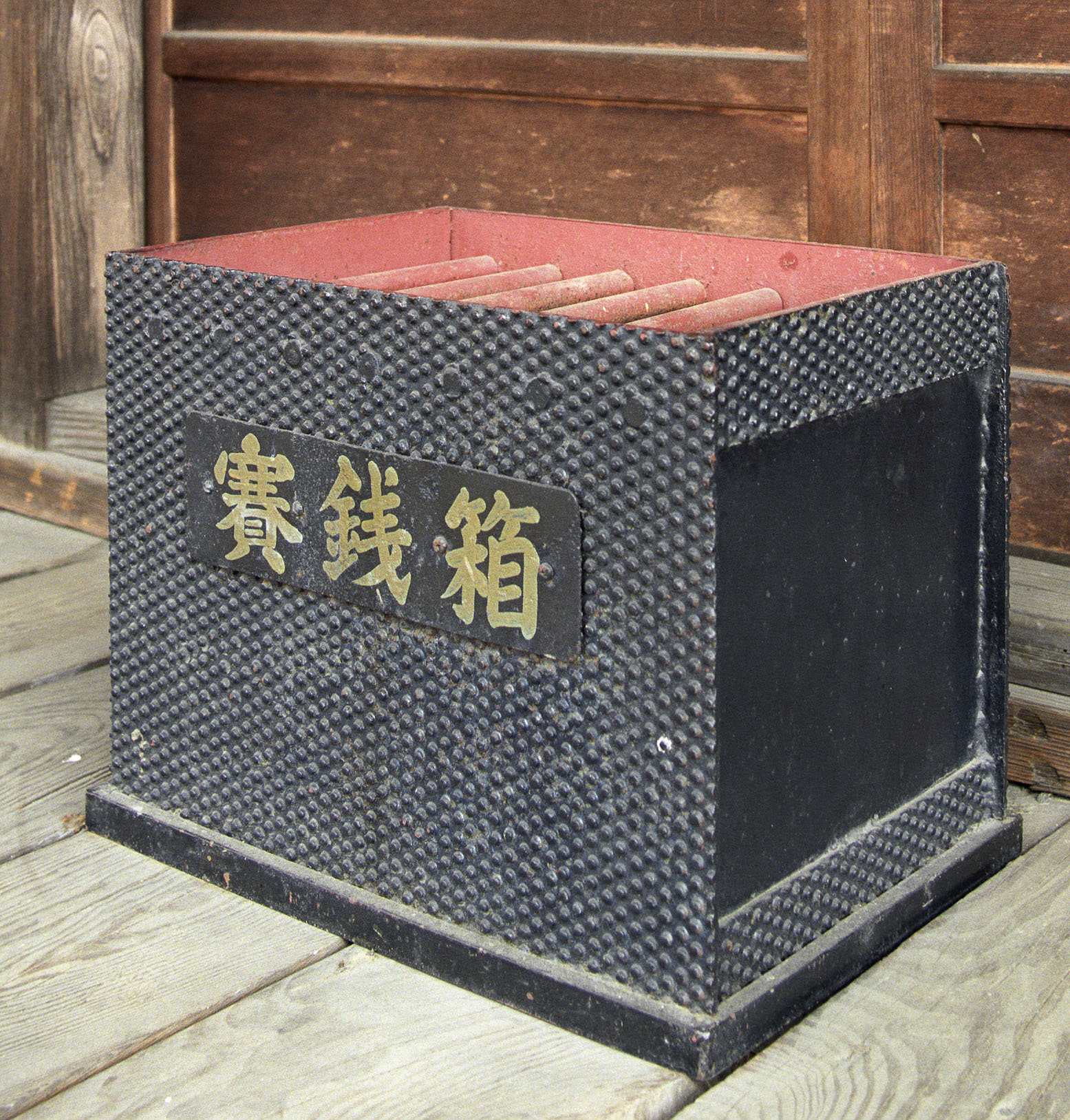 Saisenbako, offering box at a Shinto shrine